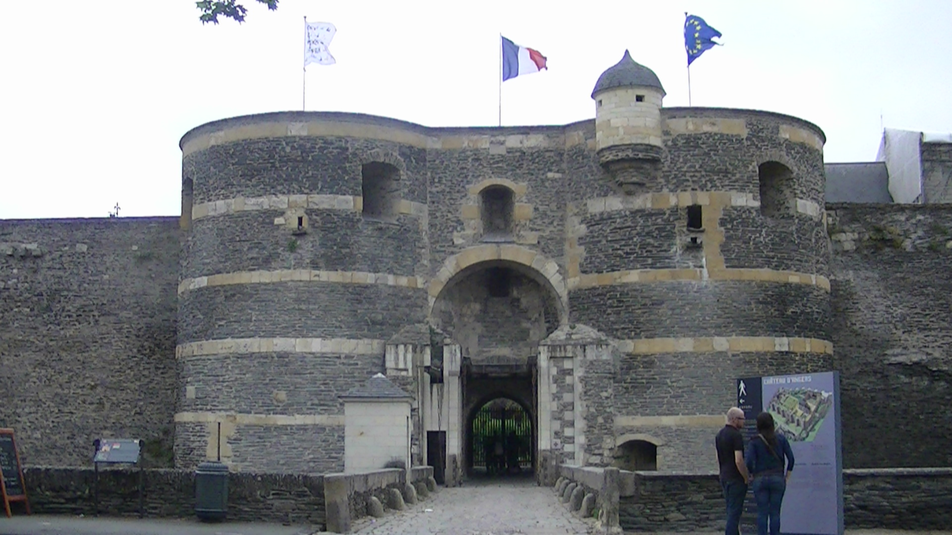 Angers Castle entrace .